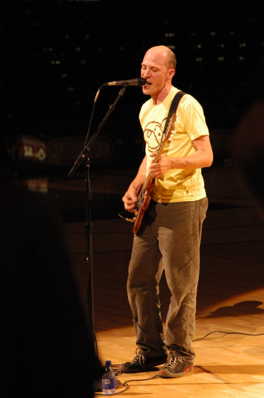 Chris Ballew from Presidents of the United States of America playing at the KeyArena 2005.